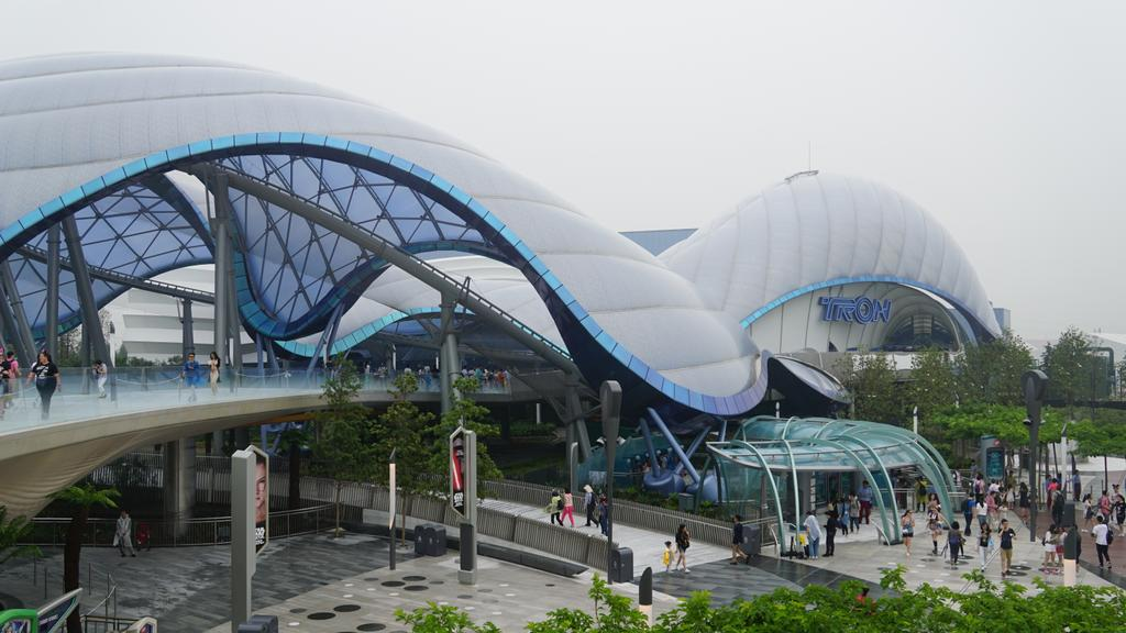 The TRON Lightcycle Power Run attraction at Shanghai Disneyland Park.